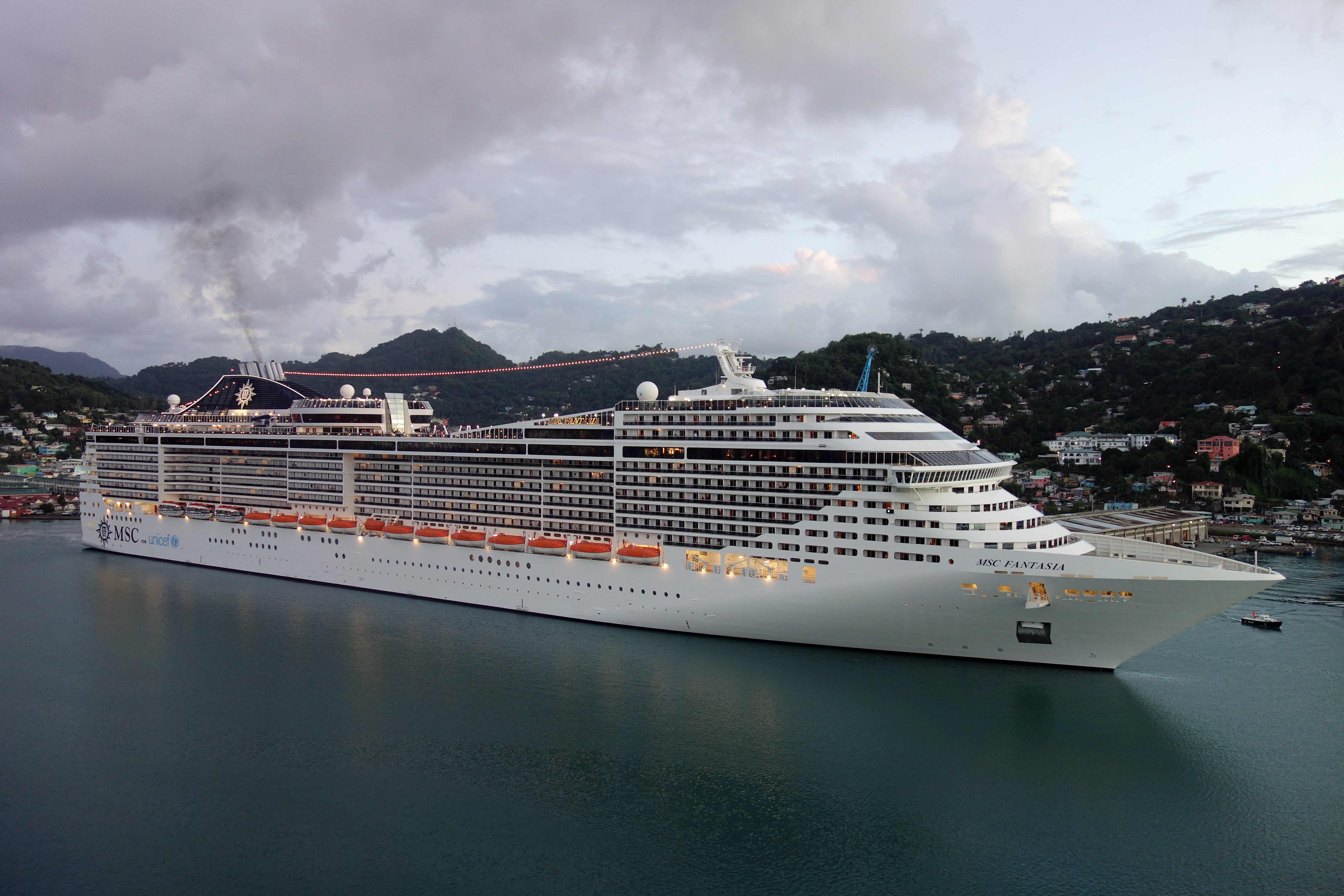 Cruise ship MSC Fantasia leaving Castries Ferry Terminal